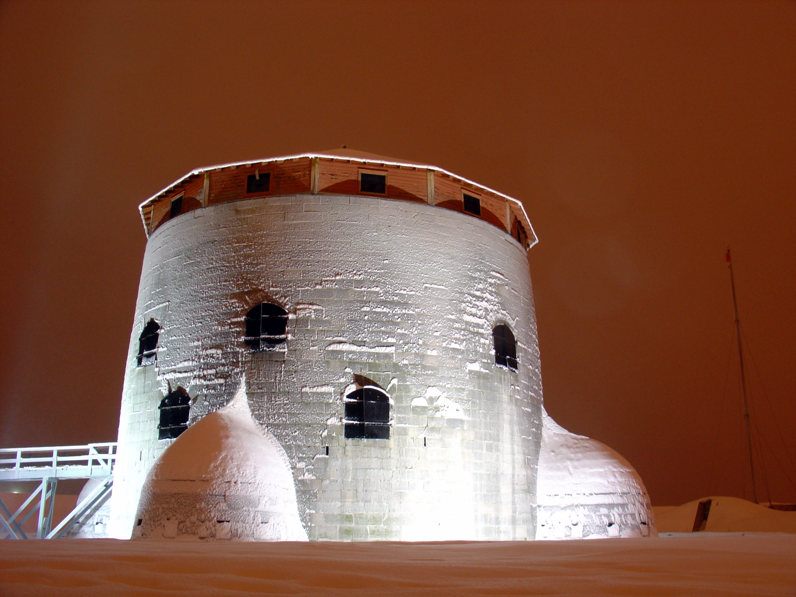 Photo of the Martello tower located at the centre of Fort Frederick, at the southern point of the Royal Military College in Kingston, Ontario